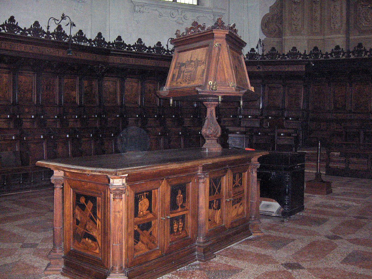 lectern in the choir of the basilica of Saint Dominic, Bologna, Italy